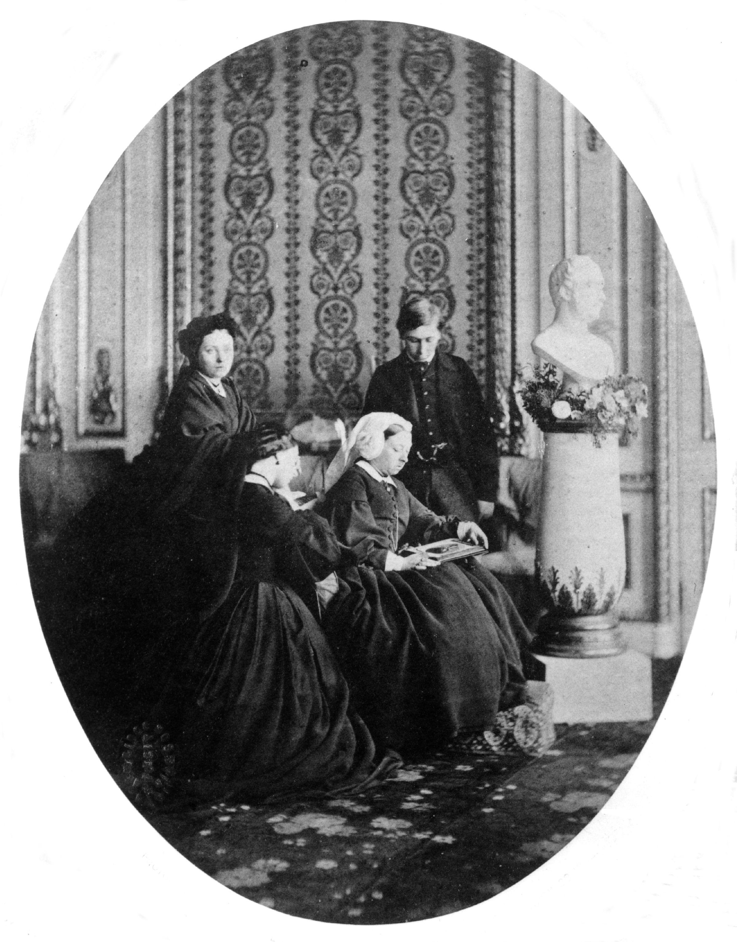 Royal mourning group, 1862, by William Bambridge (died 1879). All images in this batch have been confirmed as author died before 1939 according to the official death date listed by the NPG.